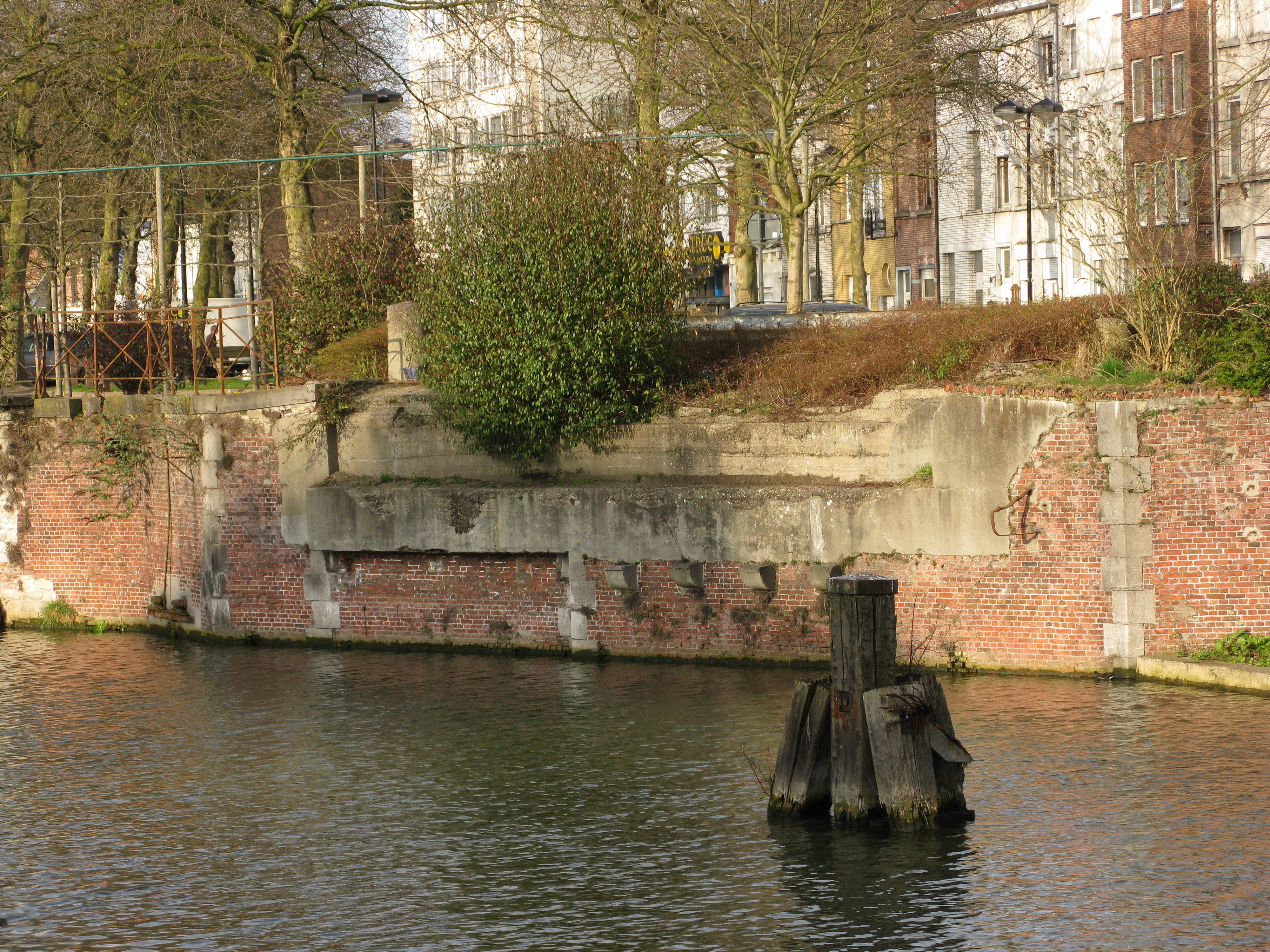 remains of the old Winketbrug in Mechelen